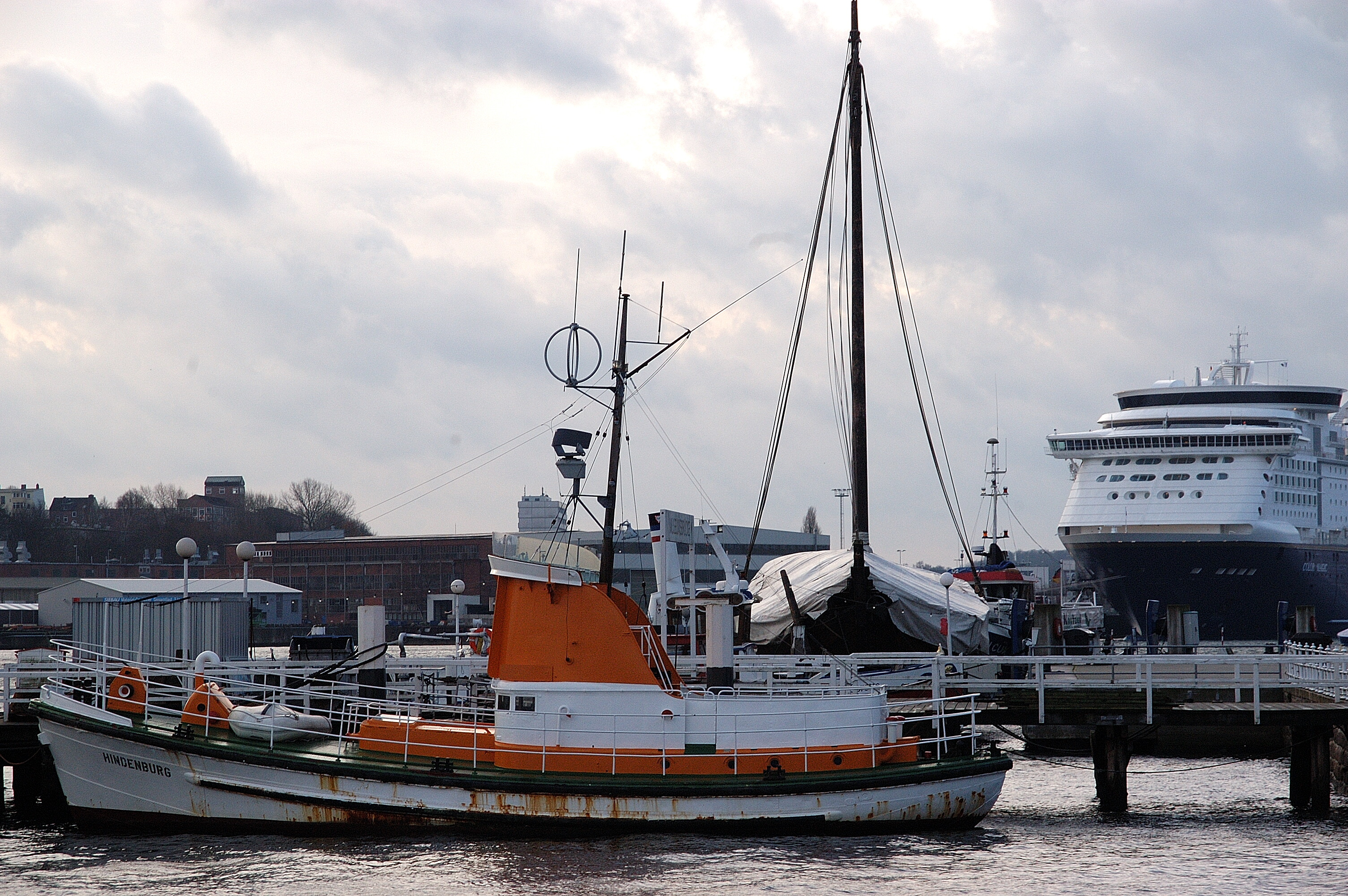 Port of Kiel. Classic museum ships in the foreground. Seenotkreuzer "Hindenburg"